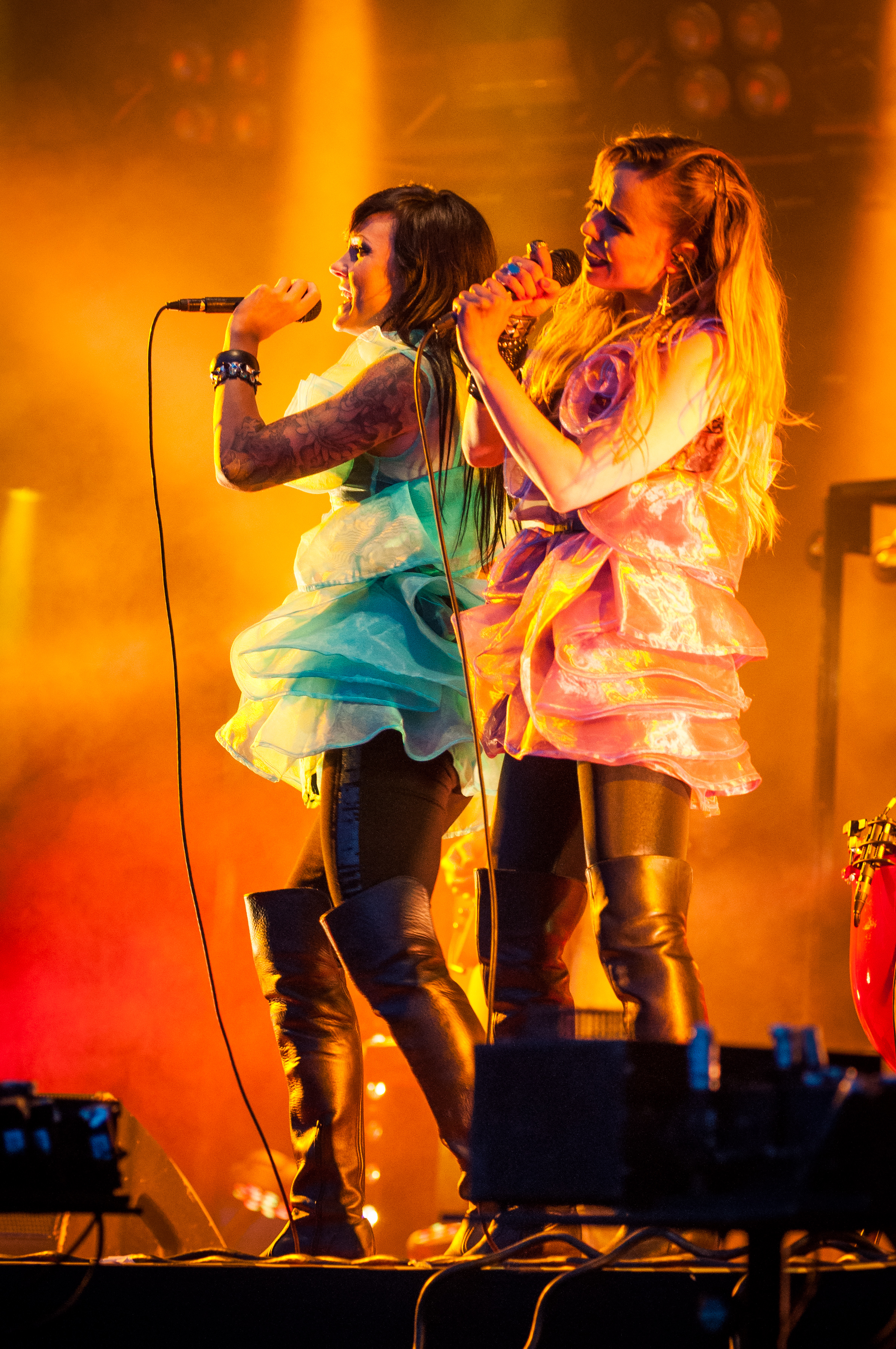 Finnish pop-rock duo PMMP performing at the Ilosaarirock festival in Joensuu, Finland.